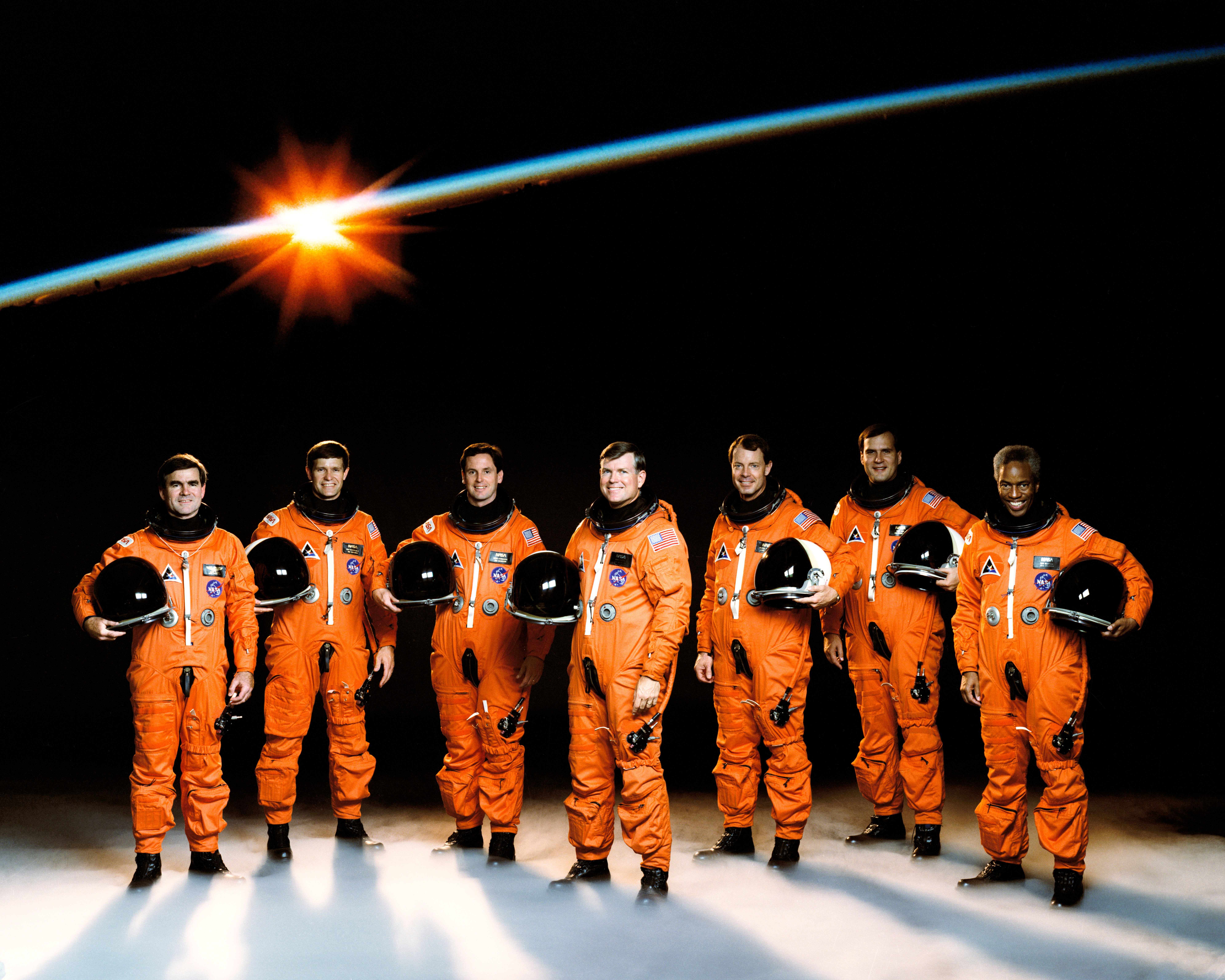 The STS-39 crew portrait includes 7 astronauts. Pictured are Charles L. Veach, mission specialist 5; Michael L. Coats, commander; Gregory J. Harbaugh, mission specialist 2; Donald R. McMonagle, mission specialist 4; L. Blaine Hammond, pilot; Richard J. Hieb, mission specialist 3; and Guion S. Buford, Jr., mission specialist 1. Launched aboard the Space Shuttle Discovery on April 28, 1991 at 7:33:14 am (EDT), STS-39 was a Department of Defense (DOD) mission. The primary unclassified payload included the Air Force Program 675 (AFP-675), the Infrared Background Signature Survey (IBSS), and the Shuttle Pallet Satellite II (SPAS II).